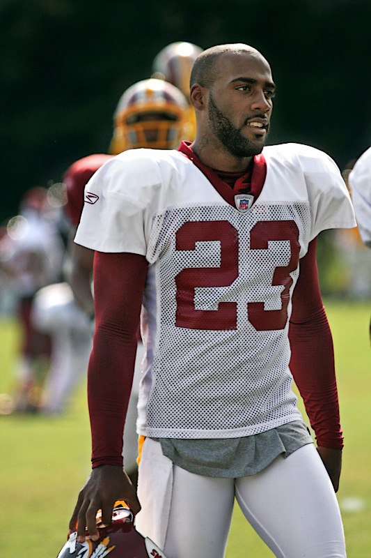 Deangelo Hall at Redskins training camp 2009